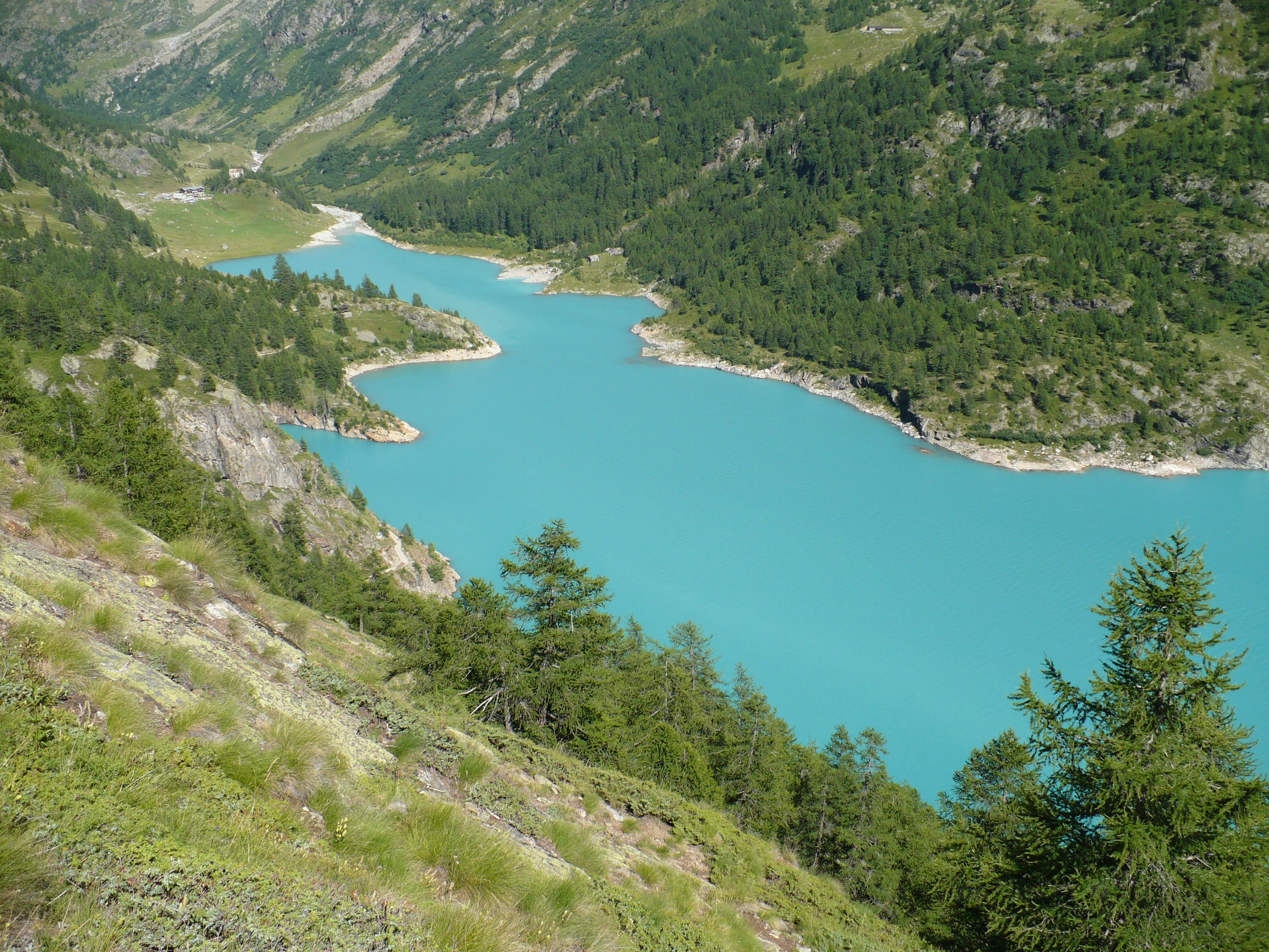 Lake Place Moulin - Valpelline - Aosta Valley - Italy